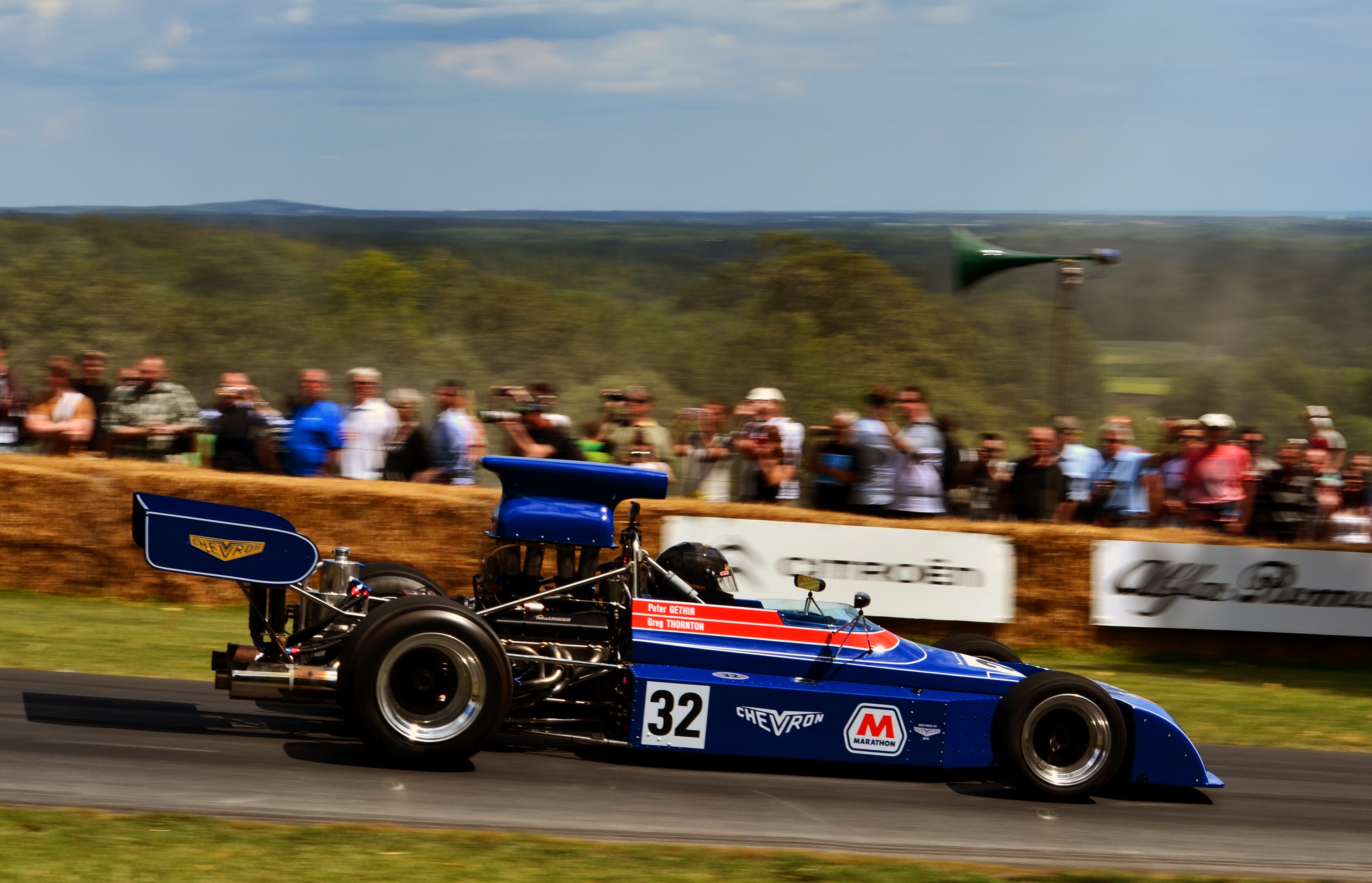 The 1972 Chevron B24 F5000 car at the 2014 Goodwood Festival of Speed.